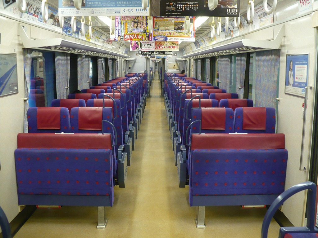 Interior of a Keikyu 2100 series EMU